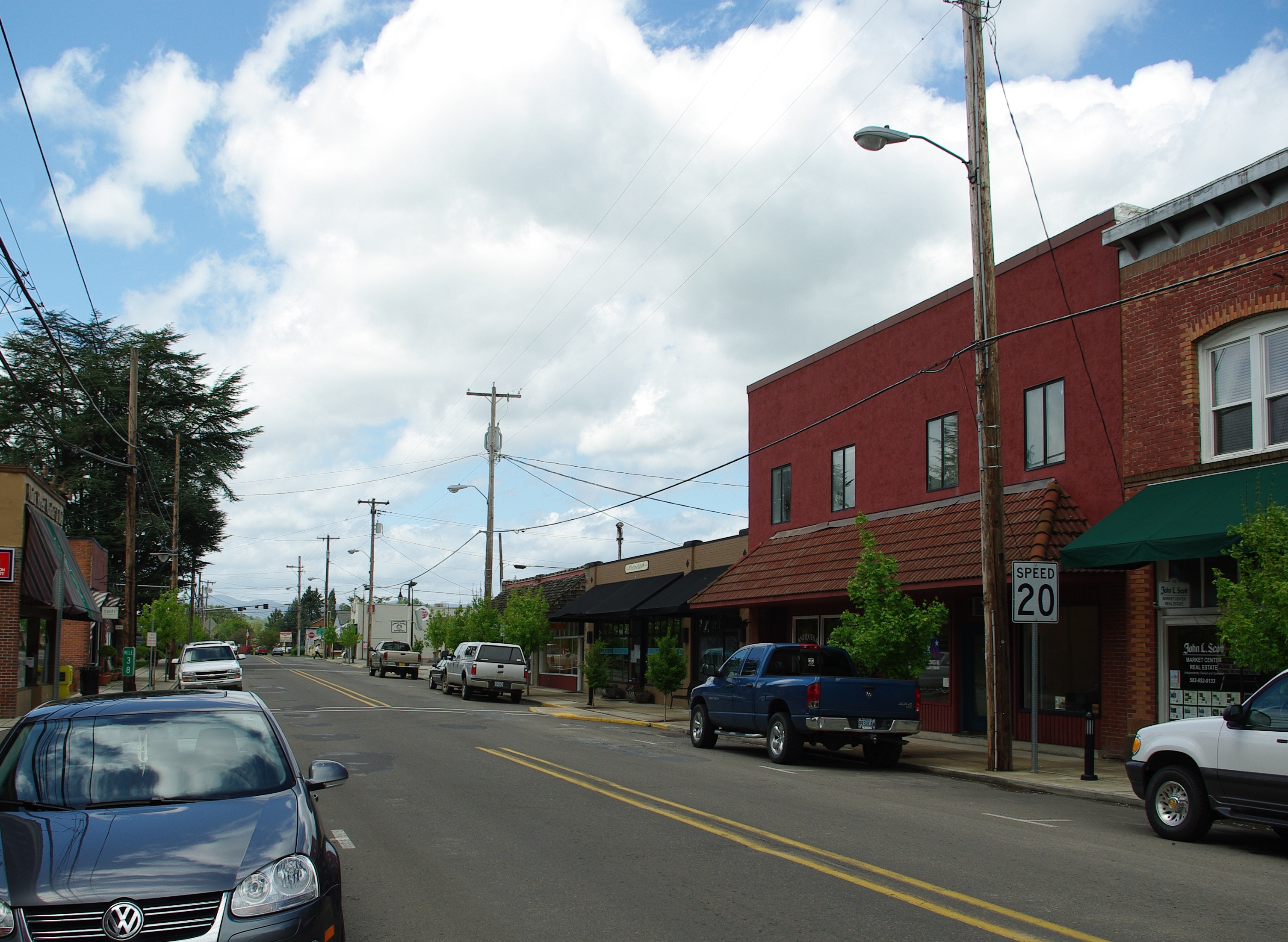 Main Street/Or Route 47 in Carlton, Oregon, USA